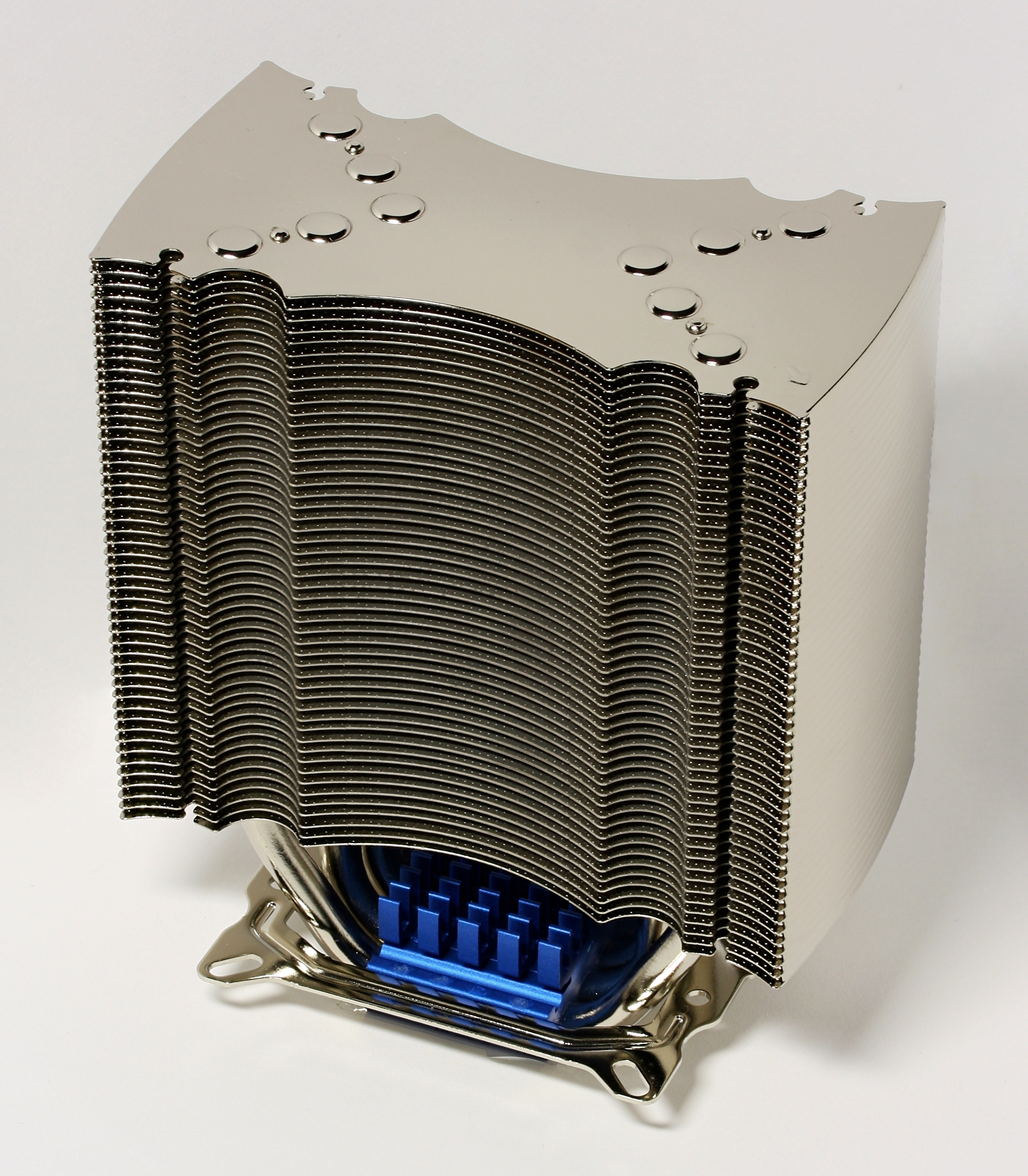 A tower cooler (“Nordwand” by Alpenföhn) for the active air cooling of a CPU